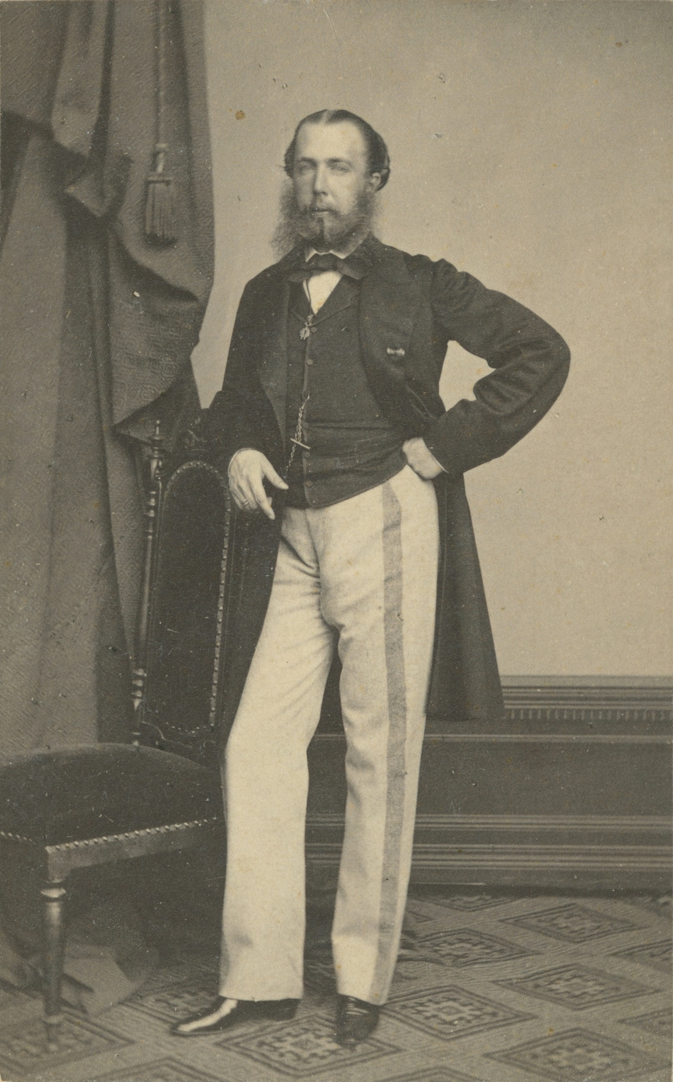 Archduke Maximilian (later Emperor Don Maximiliano I of Mexico) in Miramare Castle, Trieste, 1863.